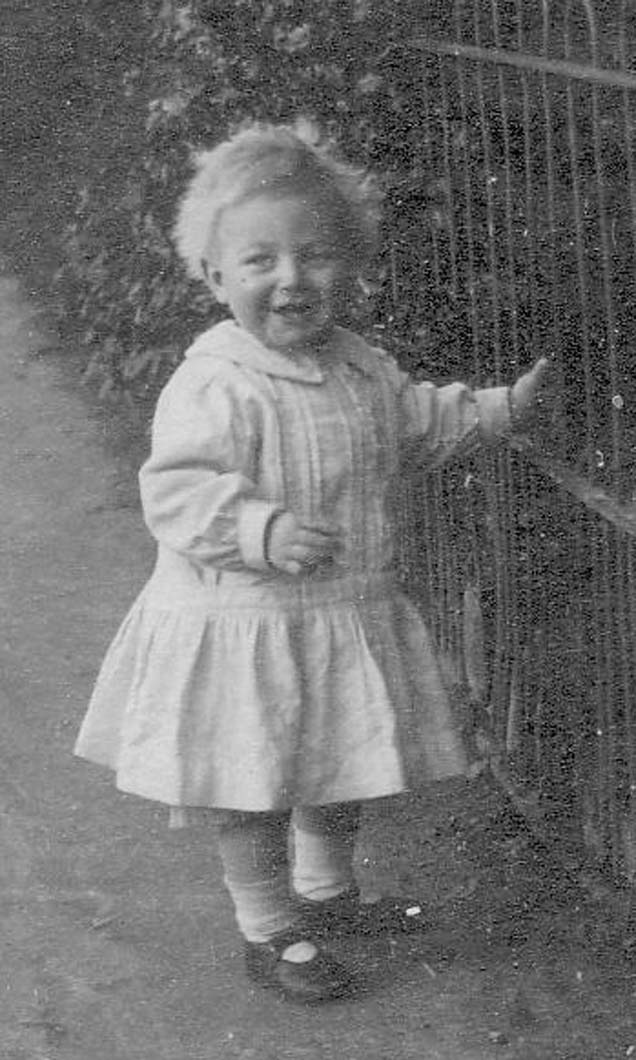 Francis Hugh Vowles (1911 - 1990 ) of Gloucester, England as a young child. Son of Hugh Pembroke Vowles and Margaret Winifred Vowles.